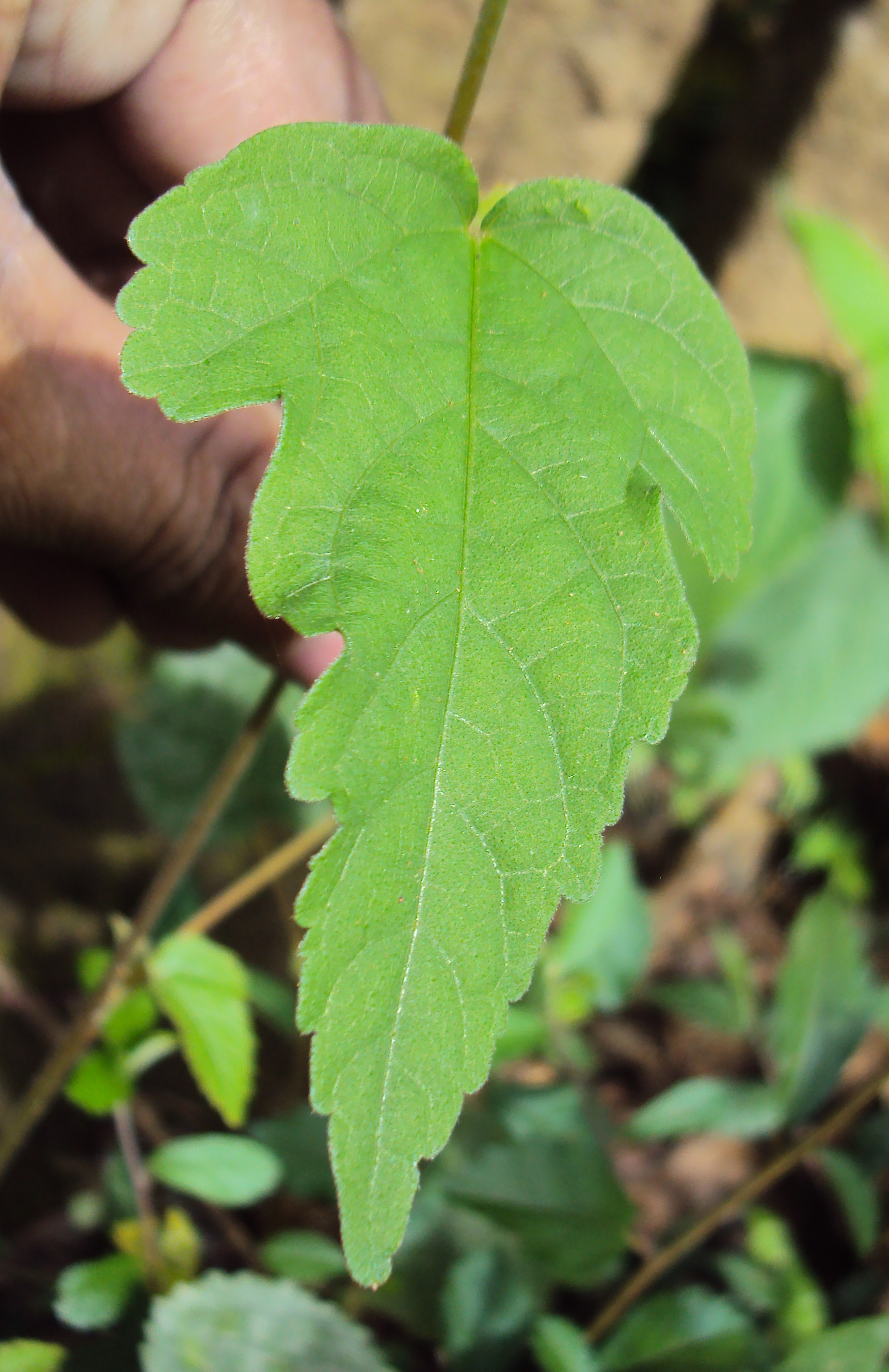 Hibiscus lobatus - Lobed Leaf Mallow